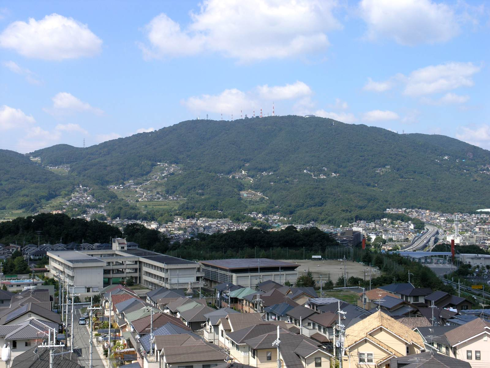 Ikoma-yama (Mountain), Ikoma, Nara Trans Wiki from ja Wikipedia